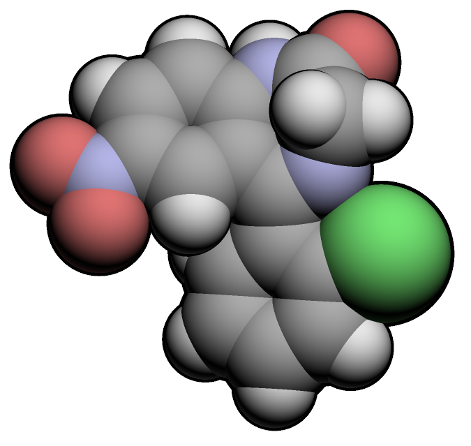 Molecular spacefill of Clonazepam Comments: High-resolution color .PNG made with MarvinSketch and QuteMol on MacOSX 10.4